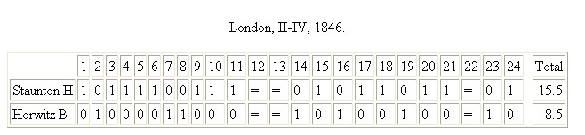 World_Chess_Championship_1846_Staunton_-_Horwitz_Match